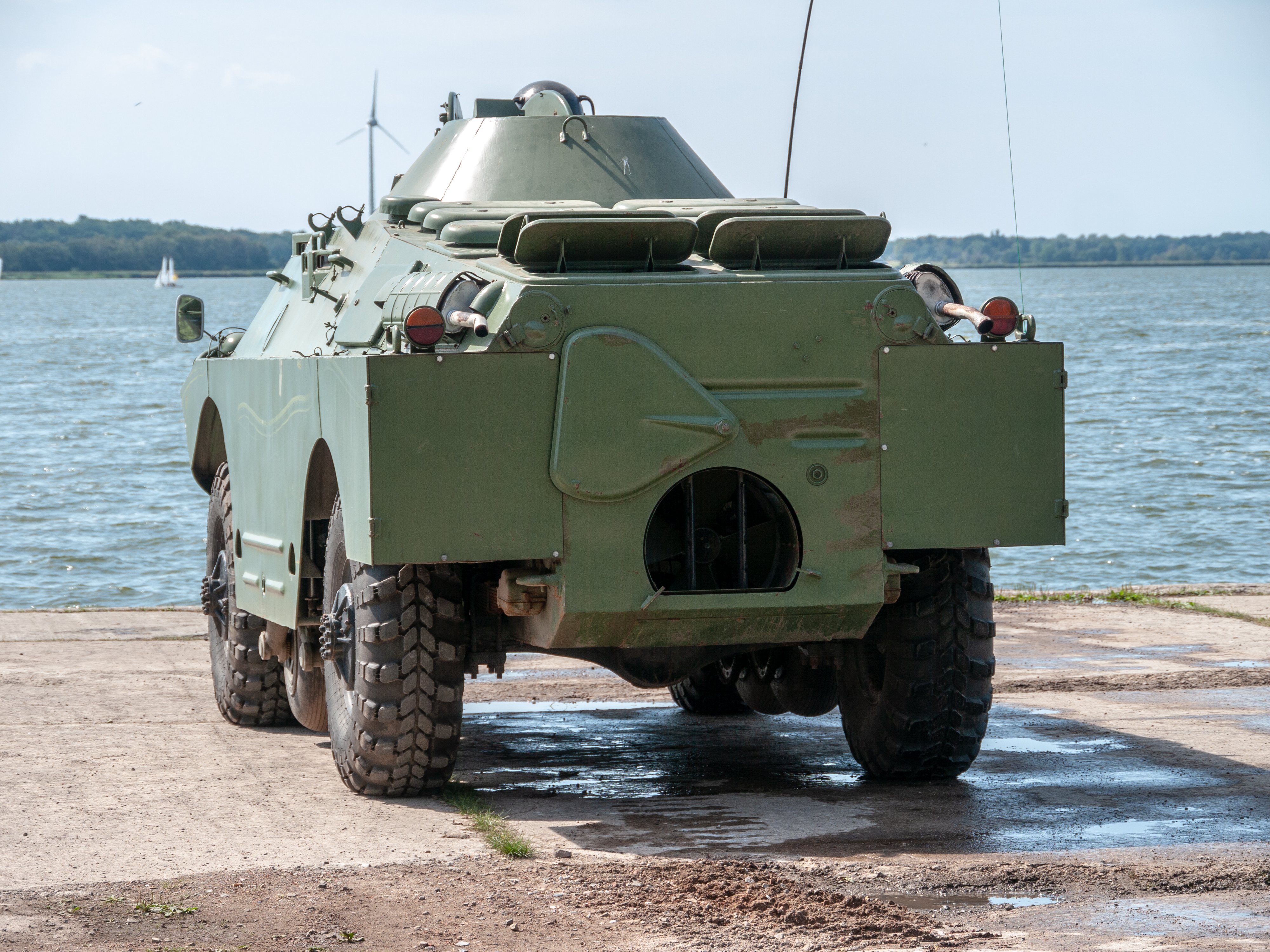 SPW-40P2 (Ch) preparing to water at 12. Internationales Maritimes-Fahrzeugtreffen